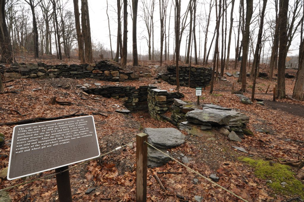 Mill foundation, Valley Falls Park, Vernon, Connecticut. Part of the NR-listed Valley Falls Cotton Mill Site.